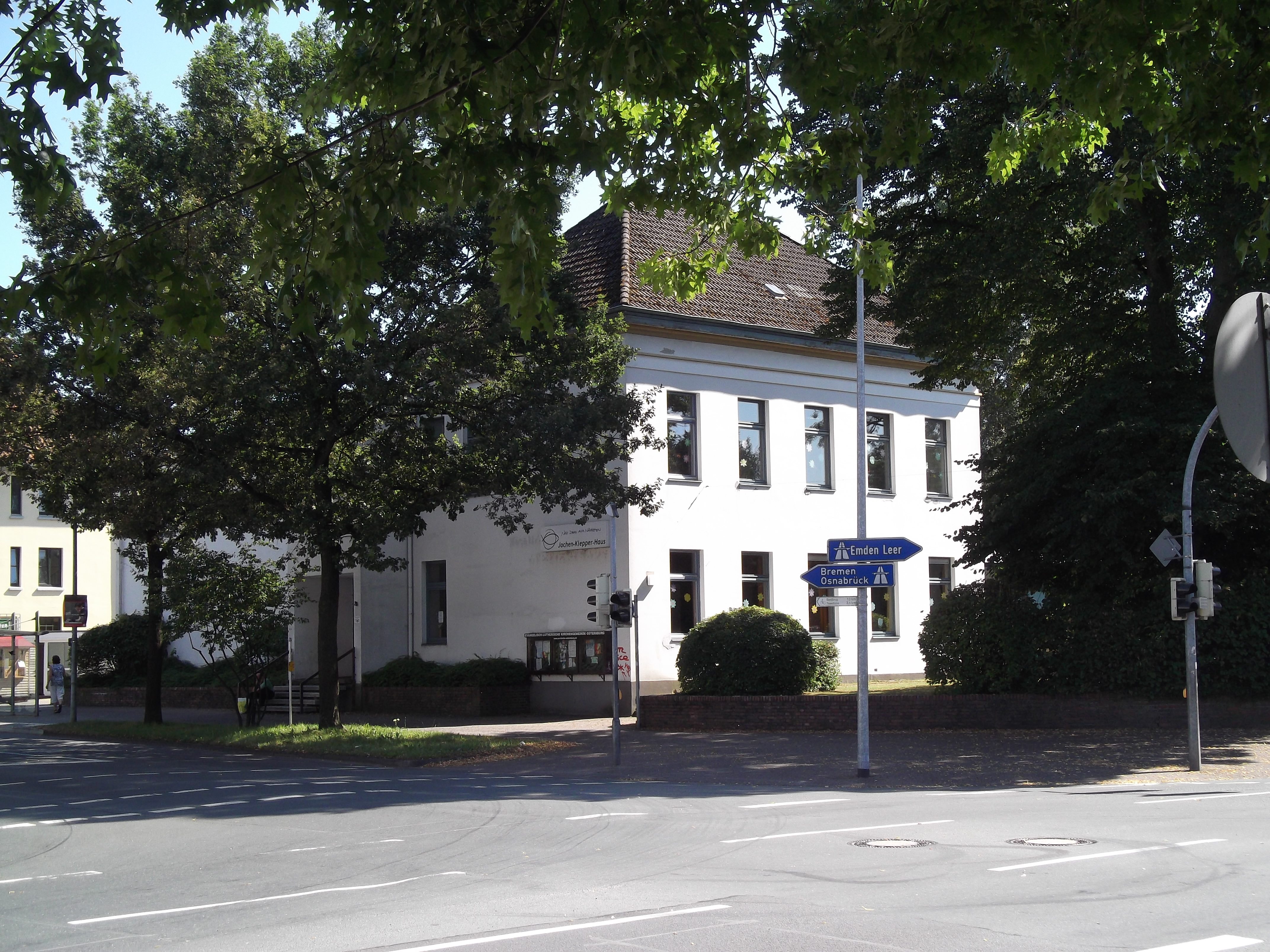 Former officers club of the Oldenburg dragoons, used by the regiment until 1919. Today used as Jochen-Klepper-Haus by the Evangelische Kirchengemeinde Osternburg.